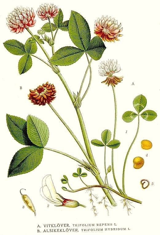 Trifolium repens L., Trifolium hybridum L. Original Description A. Vitklöver, Trifolium repens L. B. Alsikeklöver, Trifolium hybridum L.